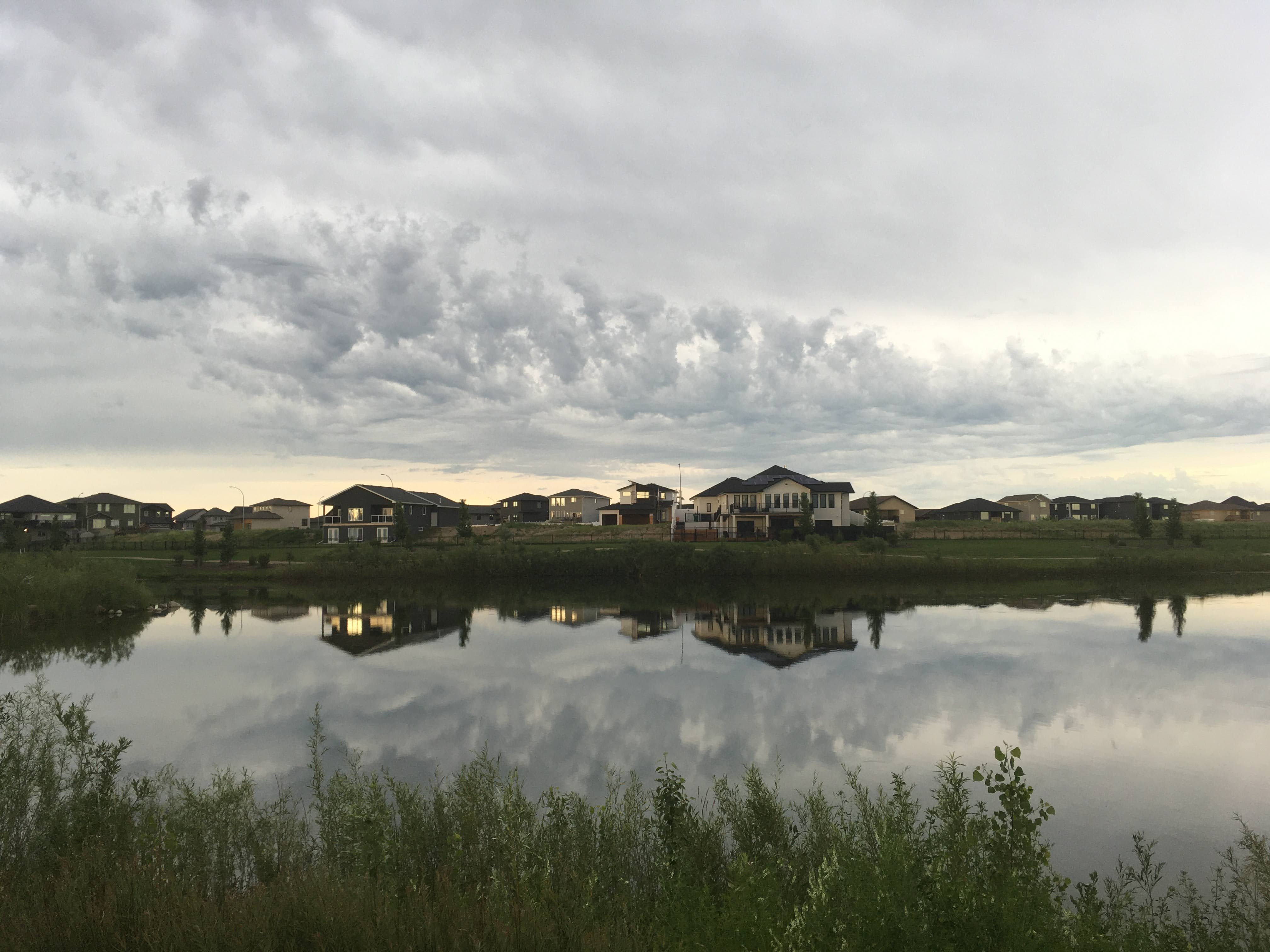 This is an image of the east side of lake in Pilot Butte, Saskatchewan, taken in July 2020.